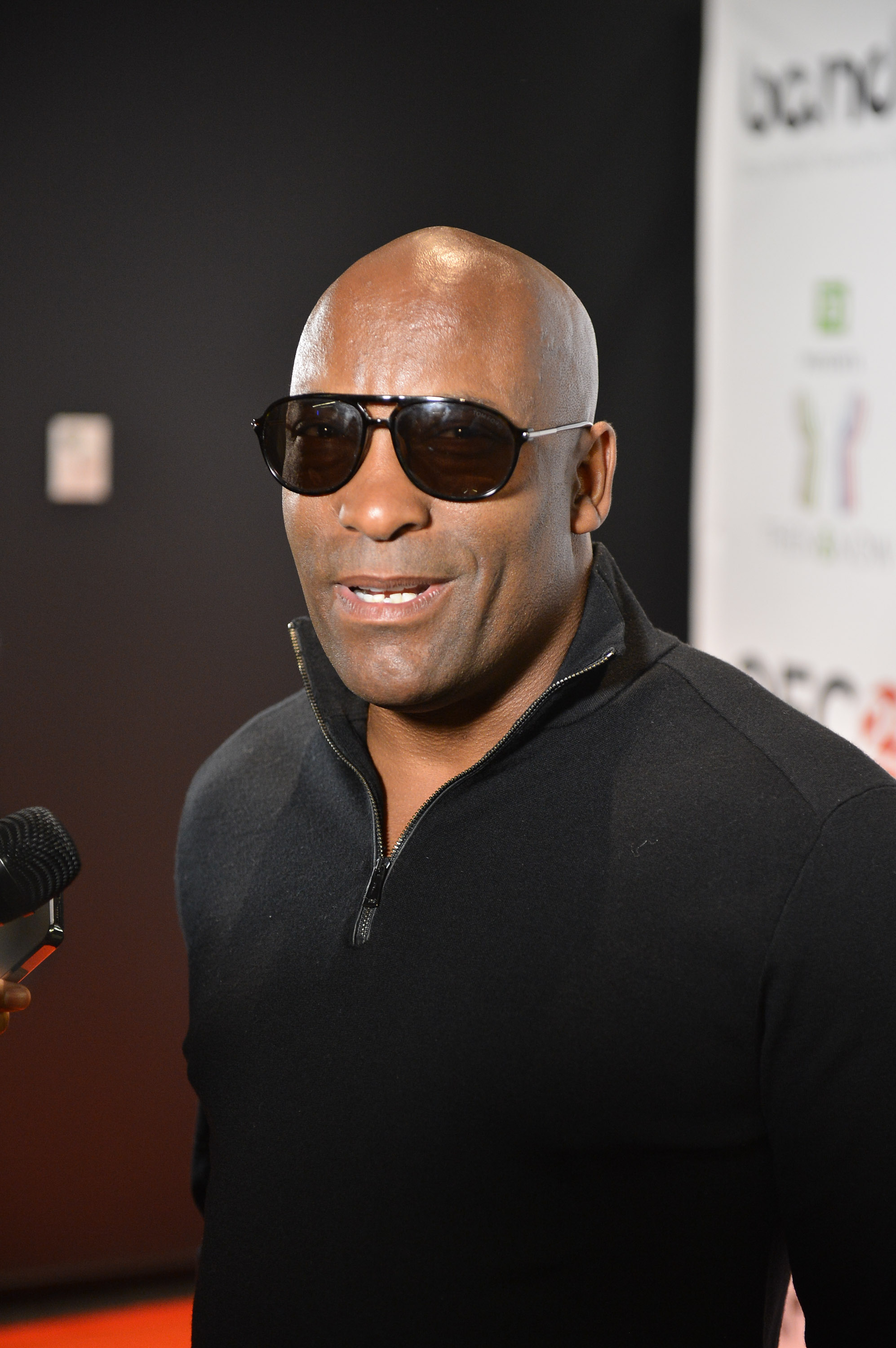 Presented by TD and BAND (Black Artists' Network in Dialogue), Clement Virgo Productions and CFC. and hosted by Garvia Bailey (CBC Radio 1), we took a look at Singleton’s influential body of work (BOYZ N THE HOOD, POETIC JUSTICE, SHAFT, BABY BOY) and talked with the iconic filmmaker about his inspirations, his filmmaking process, and reflecting the black experience in film. Singleton's 1991 film debut Boyz N the Hood received Academy Award® nominations for Best Director and Best Screenplay. At 24, he became the youngest person ever nominated for the Best Director Oscar®, as well as the first African-American to be nominated. This event was part of TD's Then and Now series, an inspiring and entertaining cultural showcase of one of Canada's prominent communities. The lineup of events includes films, concerts, exhibitions, and performances by a host of Canadian and international artists. For more information, visit: Photo by George Pimentel.